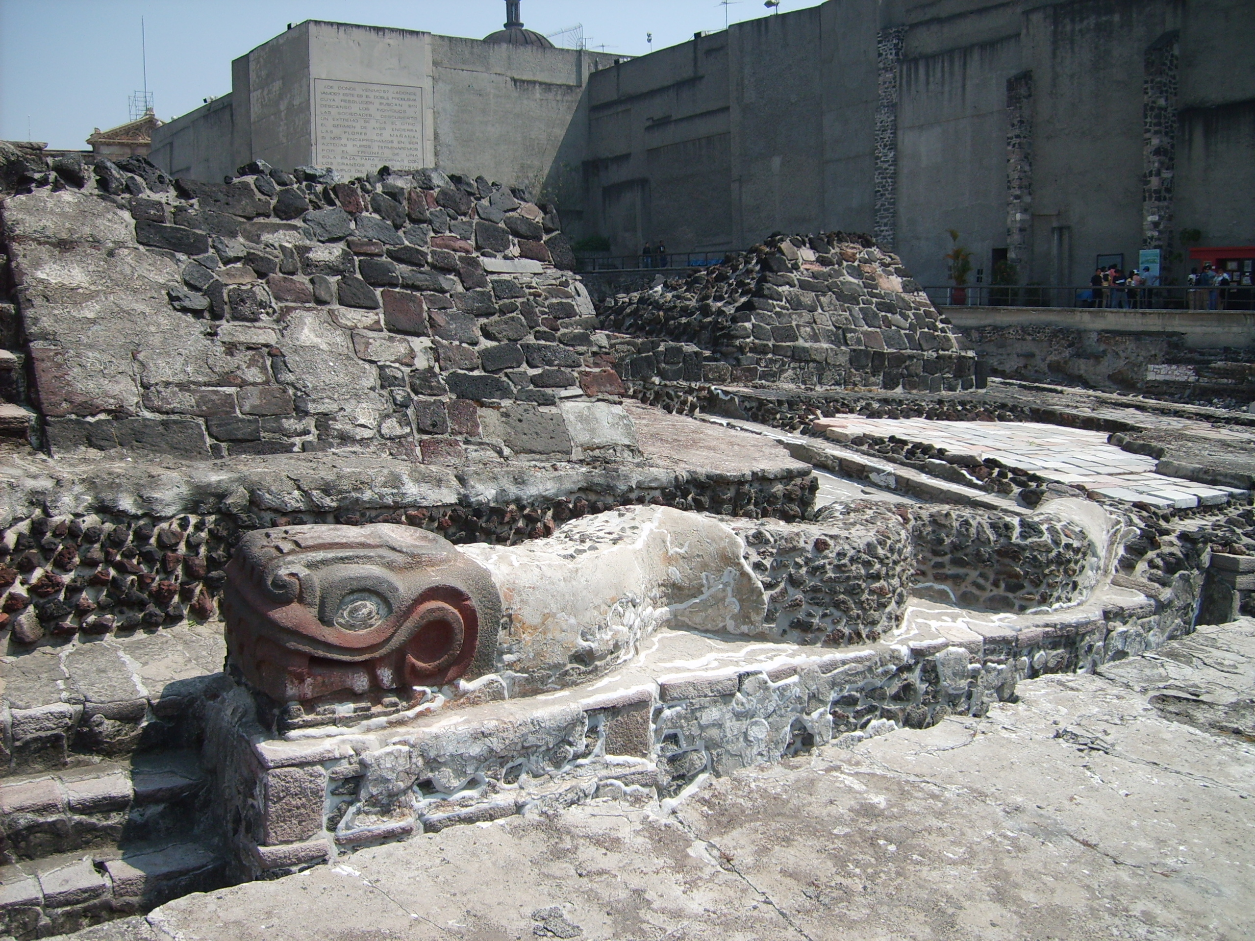 Serpent sculpture in the ruins of the Aztec Great Temple.